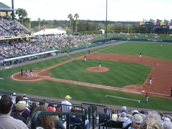 The Atlanta Braves at Champion Stadium, Lake Buena Vista at Walt Disney World, playing against the New York Mets in Spring Training baseball Game.